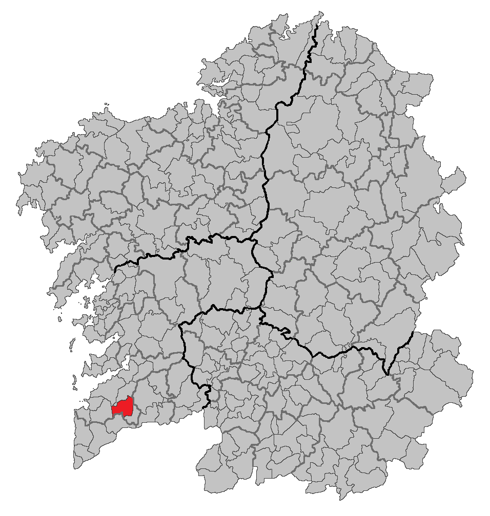 Location map of O Porriño, Pontevedra, Galicia.